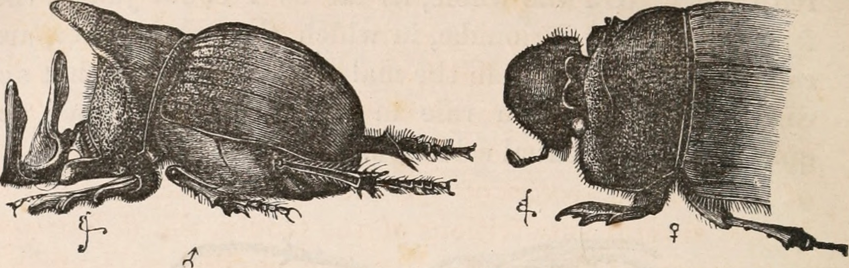 Title: The descent of man, and selection in relation to sex Year: 1873 (1870s) Authors: Darwin, Charles, 1809-1882 Subjects: Evolution; Natural selection; Sexual selection in animals; Human beings -- Origin; Sexual dimorphism (Animals) Publisher: New York : D. Appleton and Co. Text Appearing Before Image: 358 SEXUAL SELECTION. (Part II. Text Appearing After Image: Fig. 16.— Copris isidis. (Left-hand figures, males.)